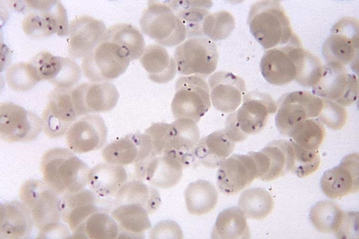 ID#: 4885 Description: This blood smear micrograph revealed the presence of numerous P. falciparum rings form parasites; Mag. 1150X. Note the RBCs that contain multiple parasites, which is more common to P. falciparum than other Plasmodium spp.. The affected RBCs contain delicate cytoplasm, and 1-2 small chromatin dots with occasional “appliqué”, or accolé ring forms. Content Providers(s): CDC/ Dr. Greene Creation Date: 1967 Copyright Restrictions: None - This image is in the public domain and thus free of any copyright restrictions. As a matter of courtesy we request that the content provider be credited and notified in any public or private usage of this image.